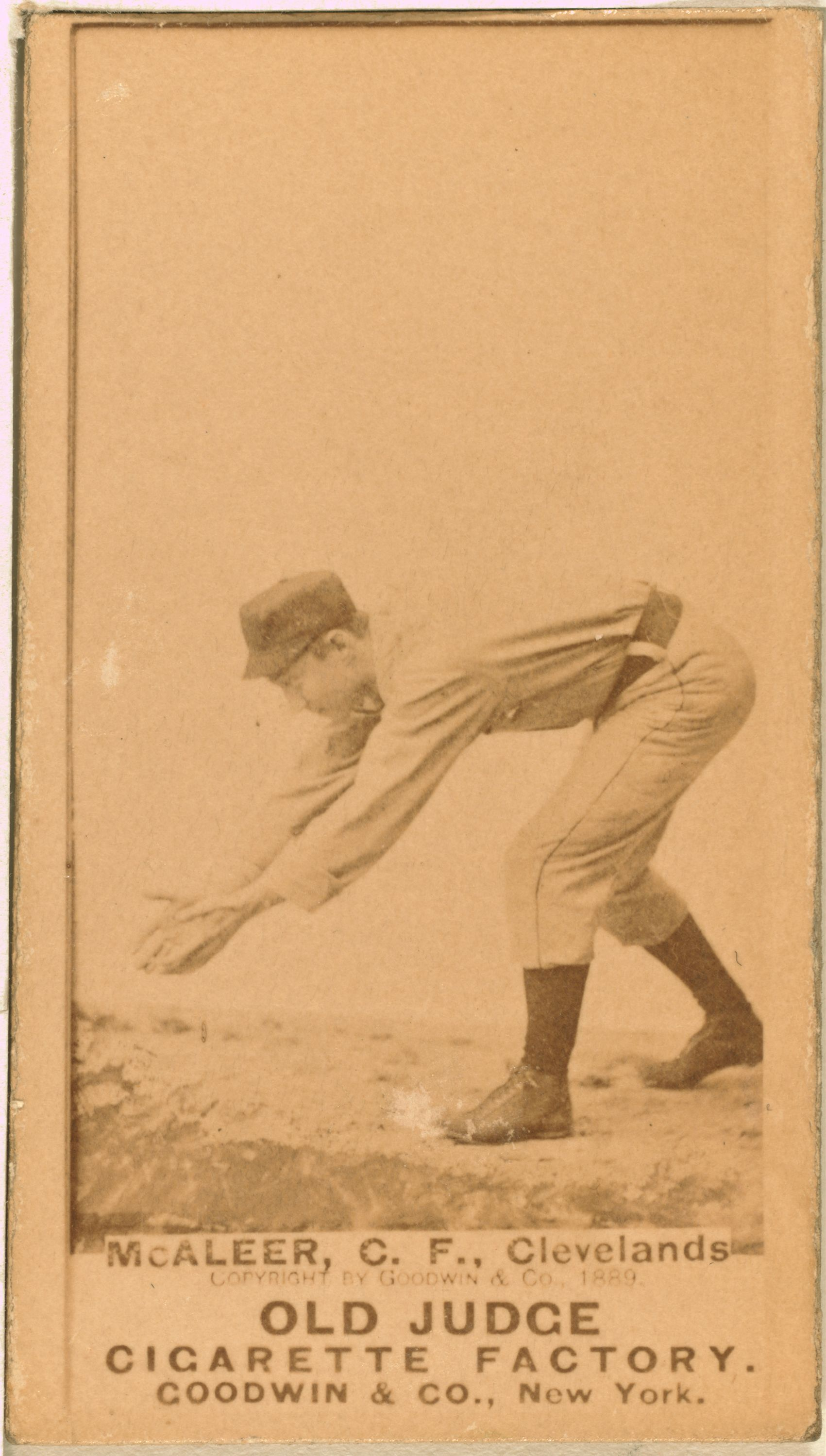 Jimmy McAleer